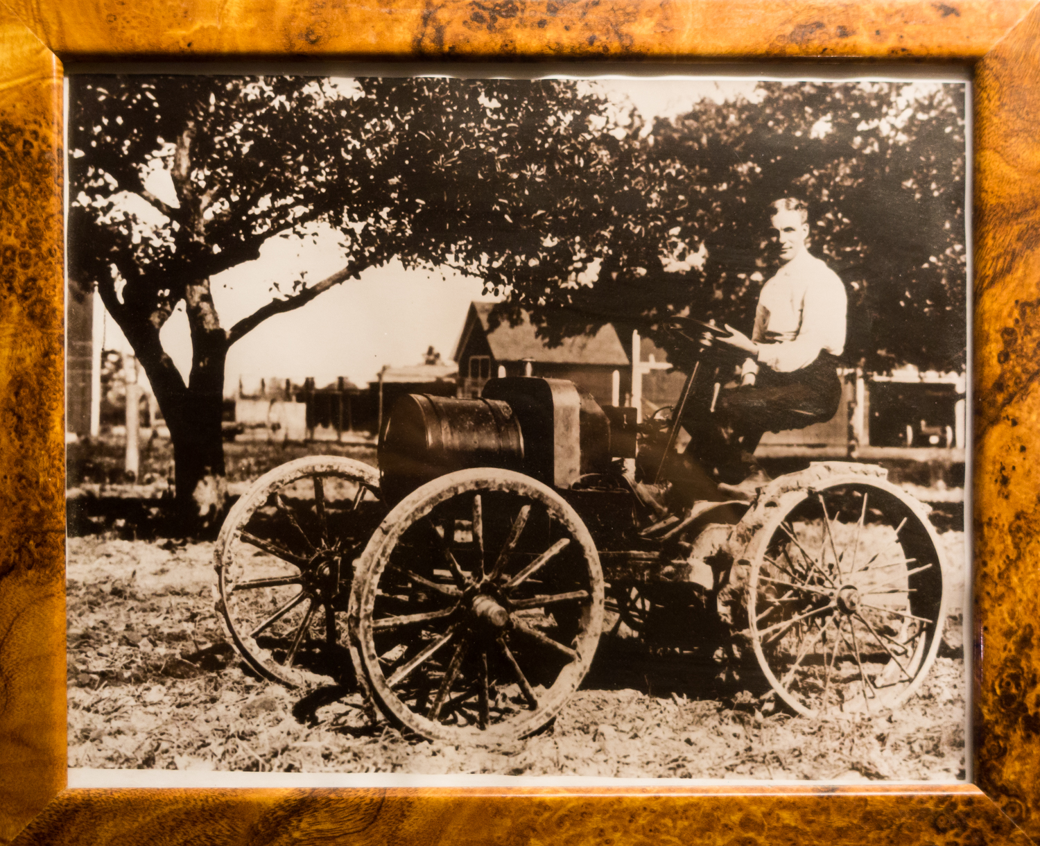 Henry Ford sitting on the 1908 model Fordson tractor. Collection Name: McCormick - International Harvester.